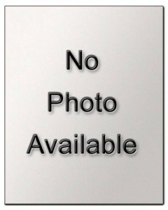 No-Photo-Available-240x300